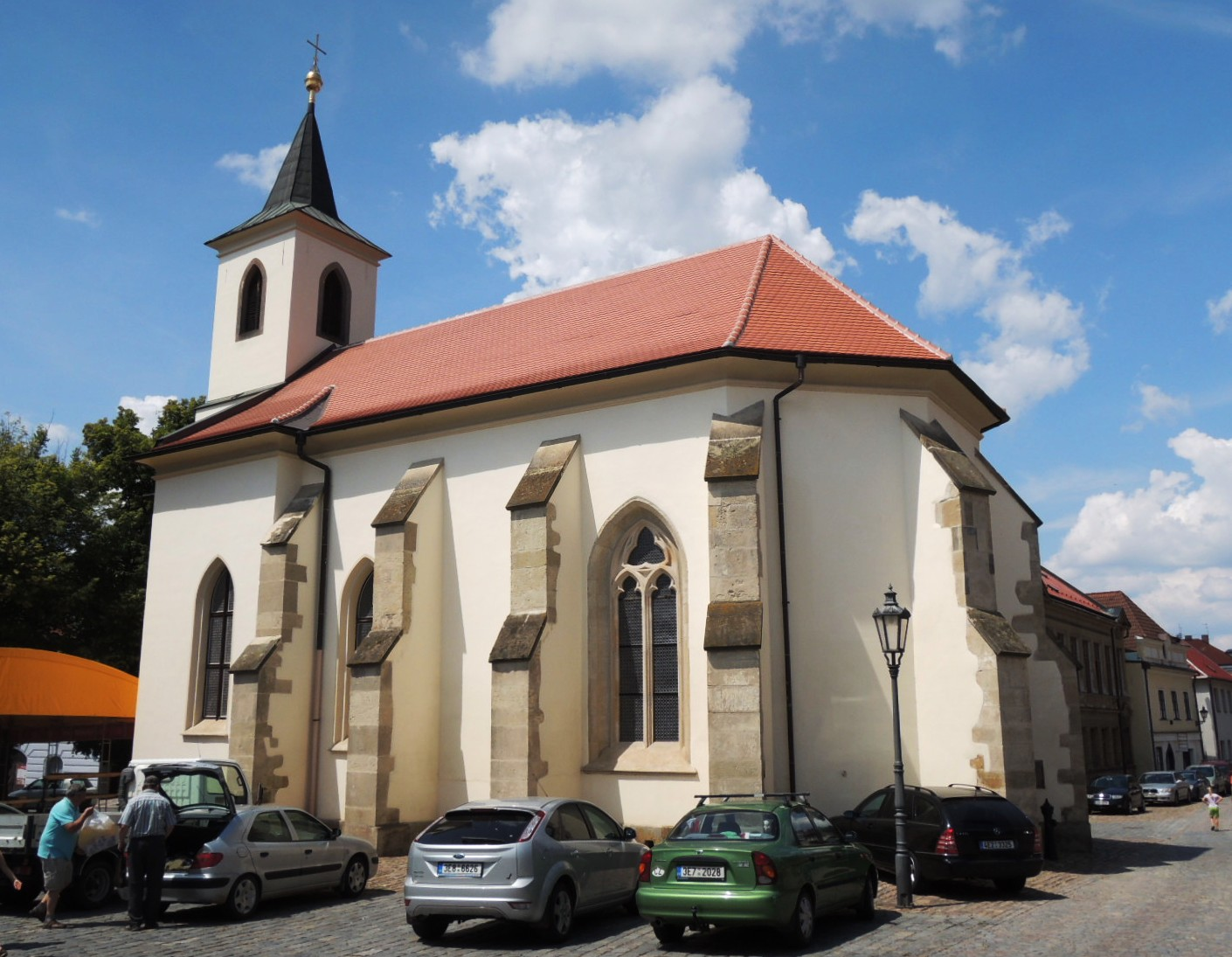 Litomyšl, church of the Holy Apostles (Toulovcovo nám.)